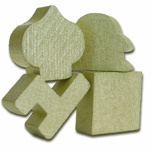 Game material for parlor game St. Petersburg.